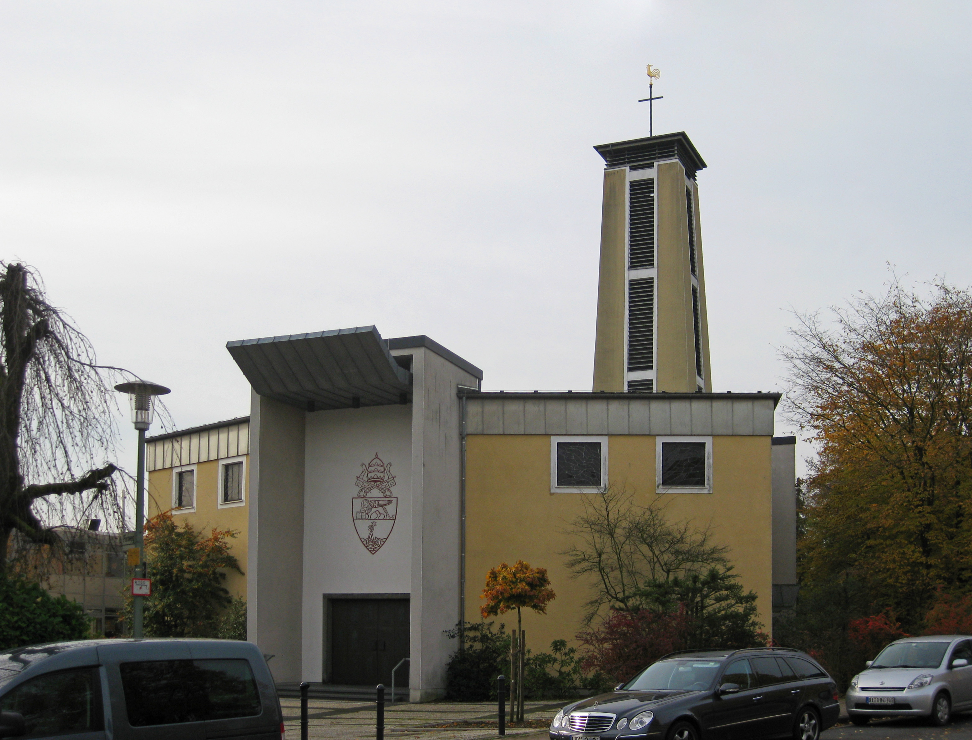 catholic parish church St._Pius-Kirche in Bielefeld-Gadderbaum